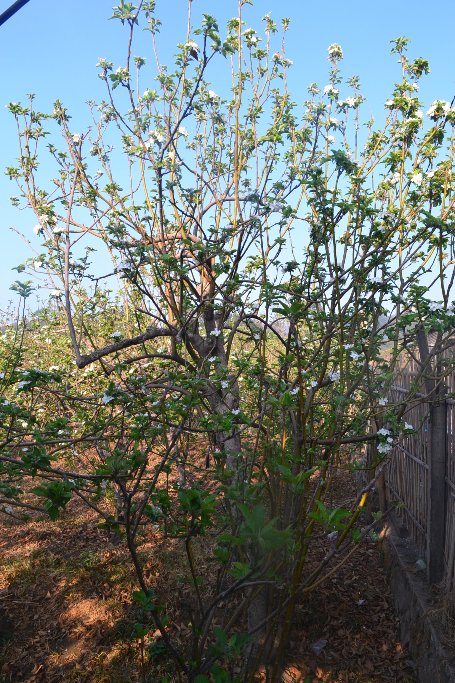 Blooming apple tree on Batu, Indonesia